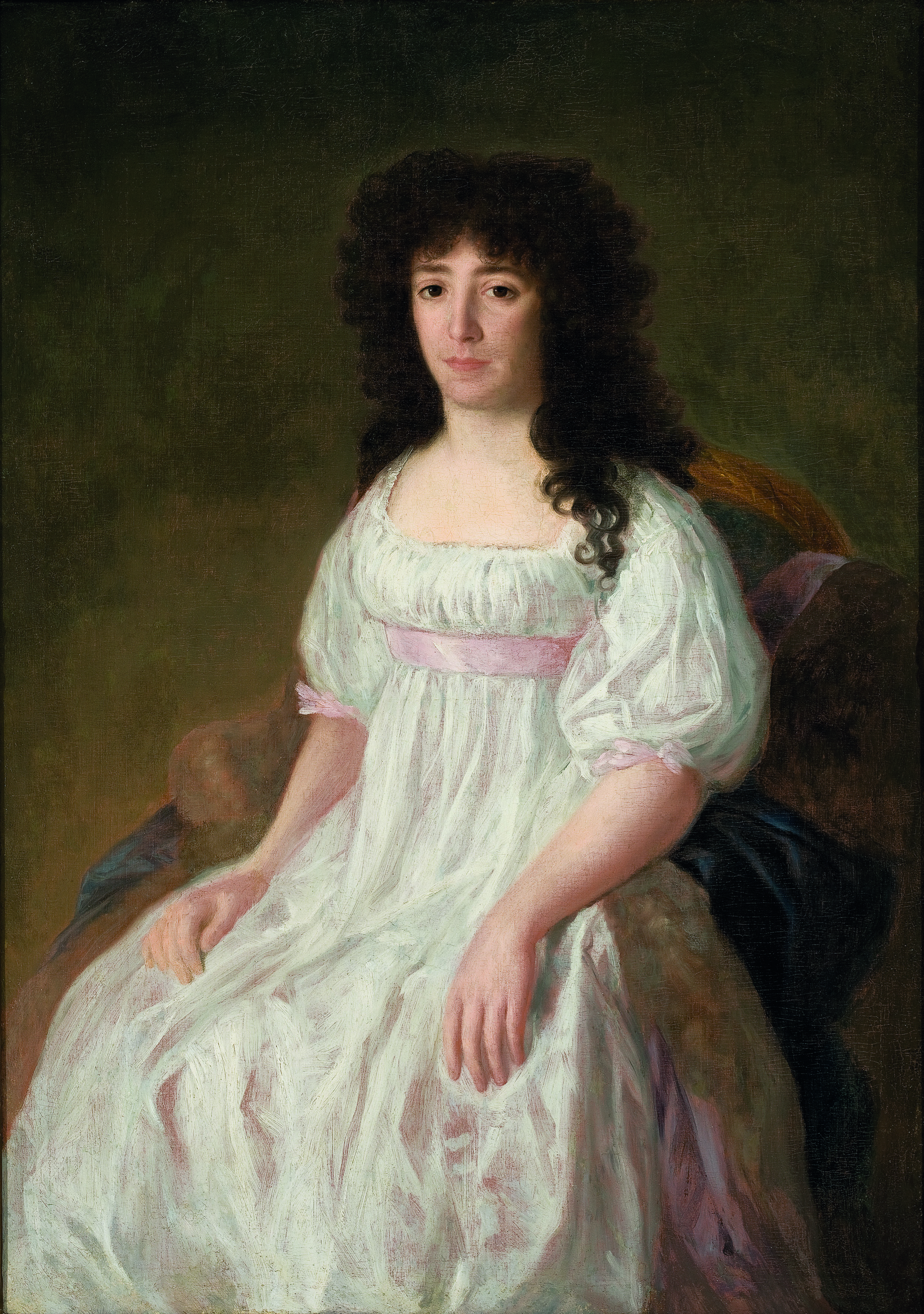 Portrait of the Countess of Casa Flores